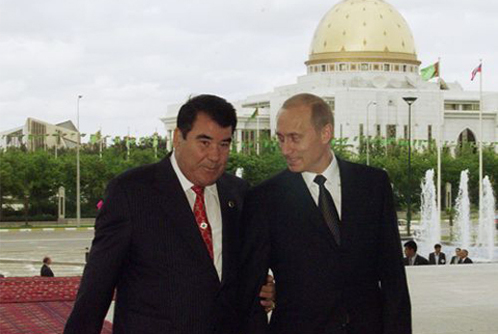 ASHGABAT. President Putin meeting with Turkmen President Saparmurat Niyazov at the Rukhiyet Palace.